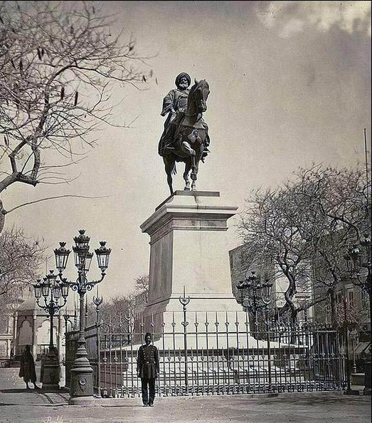 Statue of Muhammad Ali of Egypt in Mansheya square, Alexandria, Egypt (-1900 +1910)